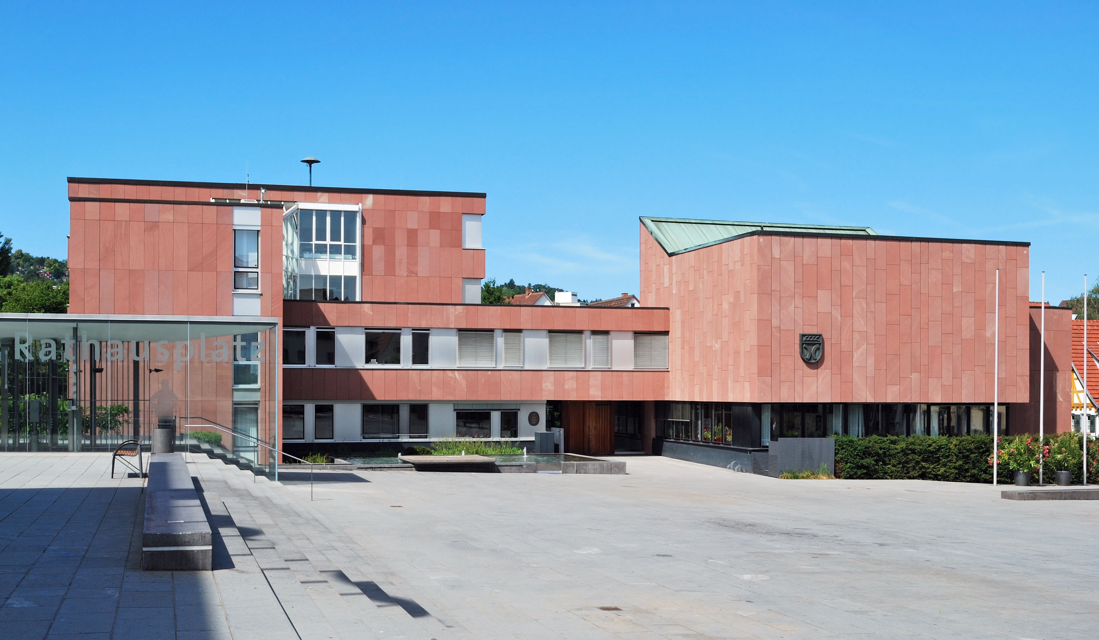 The city hall in Gerlingen in Southern Germany, built in 1967.